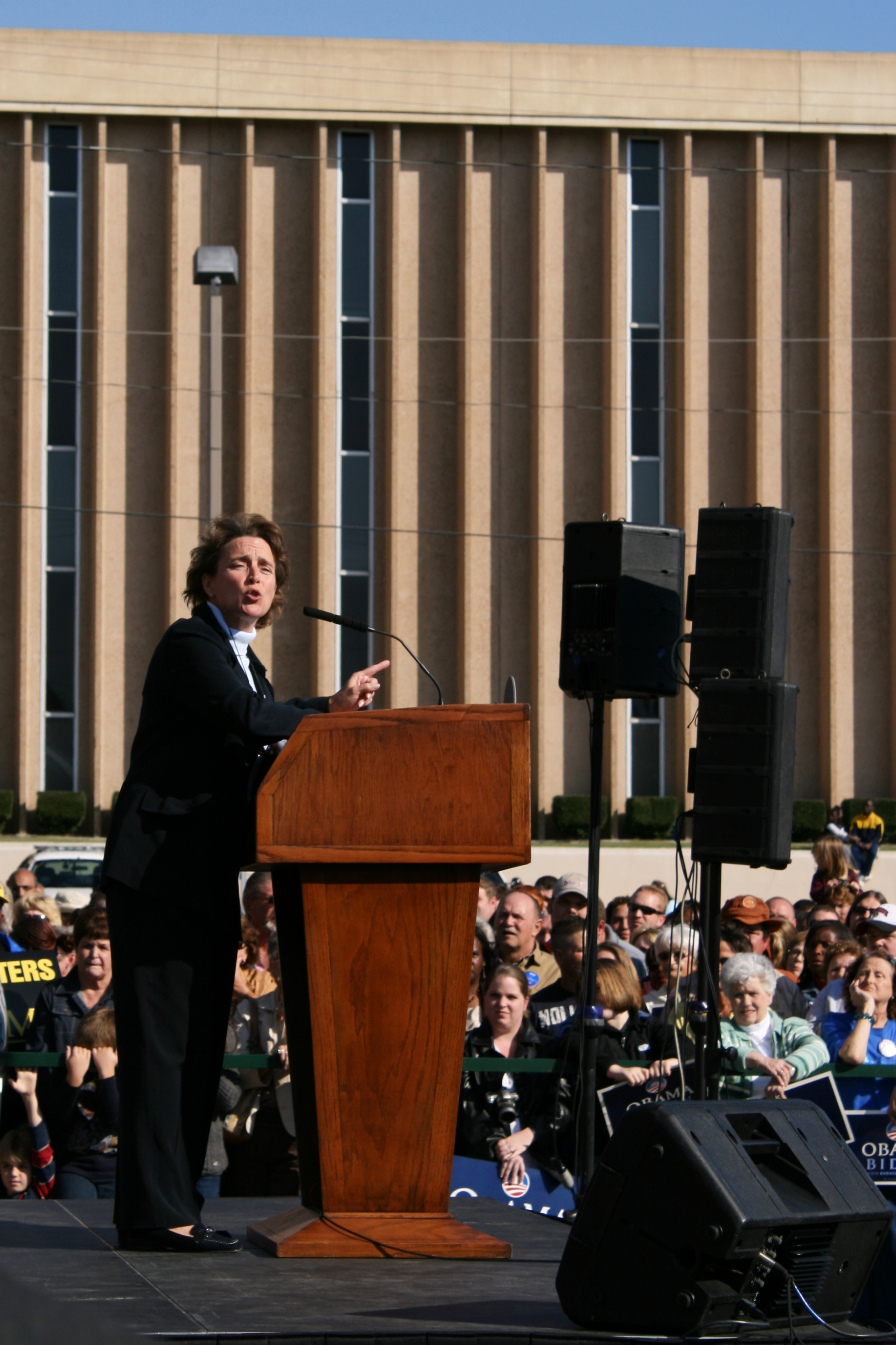 Blanche Lincoln, democratic senator for Arkansas (USA), speaking in Jonesboro, Arkansas.